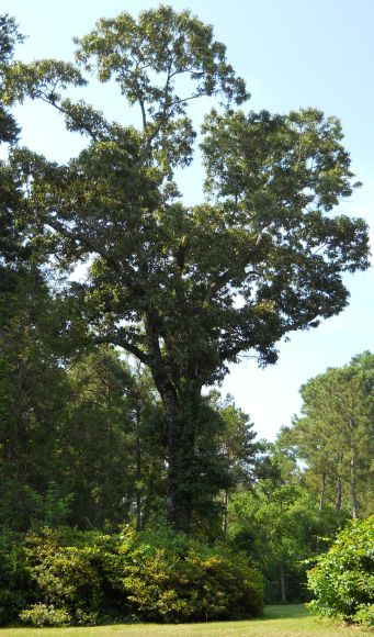 Mature Quercus falcata tree in south Mississippi, USA